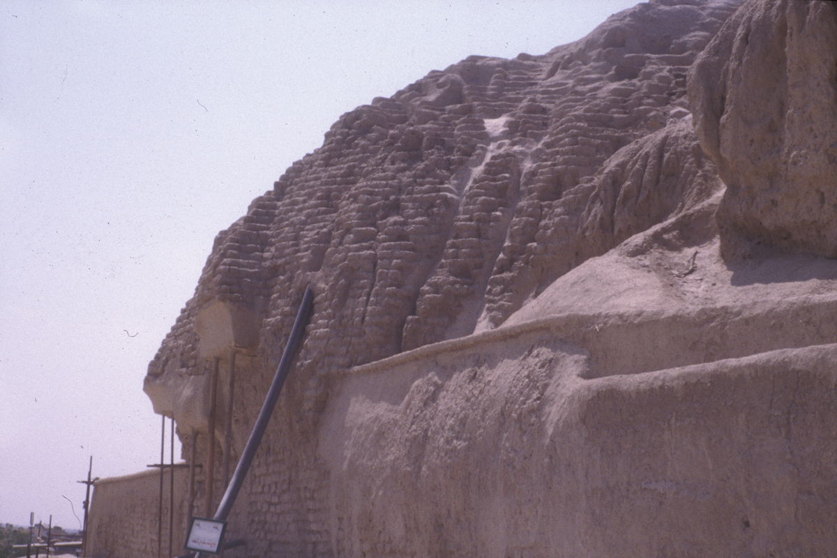 Tepe Sialk. I took this image with a Fuji 200 slide camera.